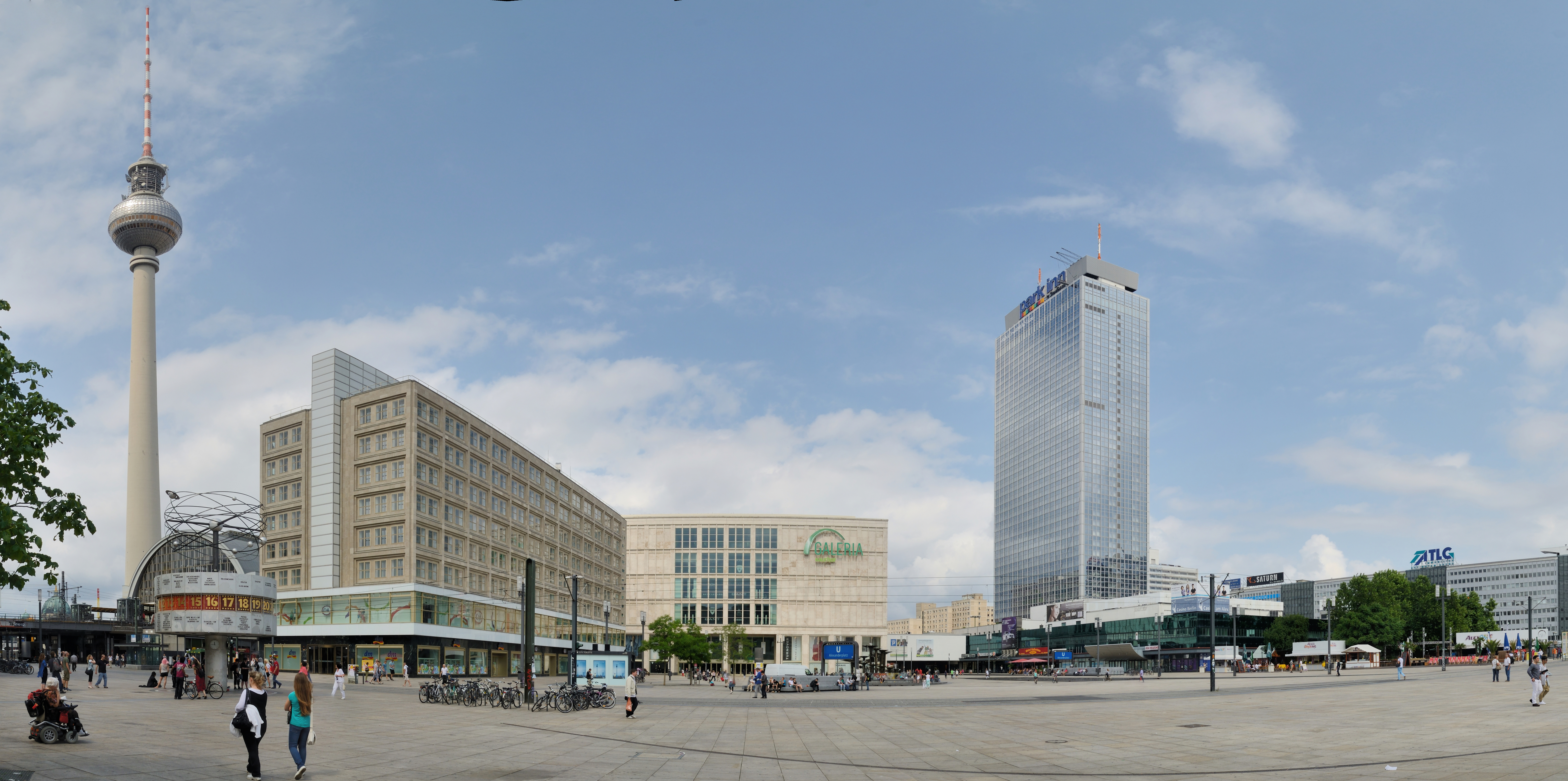 Berlin: Alexanderplatz